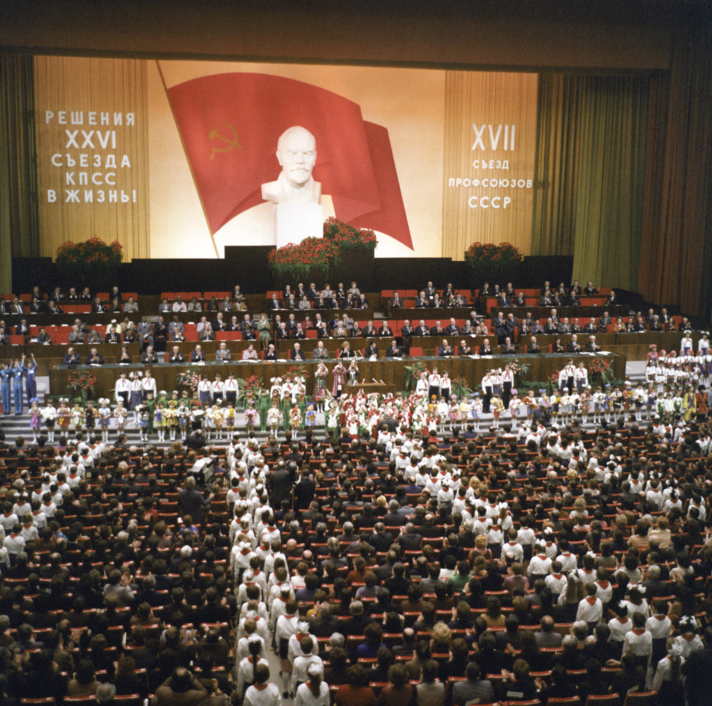 “Pioneers and schoolchildren greet delegates and guests of XVII convention of trade unions of the USSR”. Pioneers and schoolchildren greet delegates and guests of XVII convention of trade unions of the USSR. The Kremlin Palace of Congresses (currently The State Kremlin Palace).